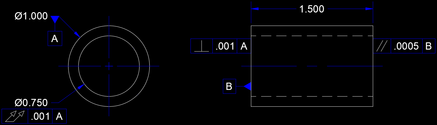 Screenshot from AutoCAD showing usage of T.I.R., perpendicularity and parallelism GD&T datum reference symbols.